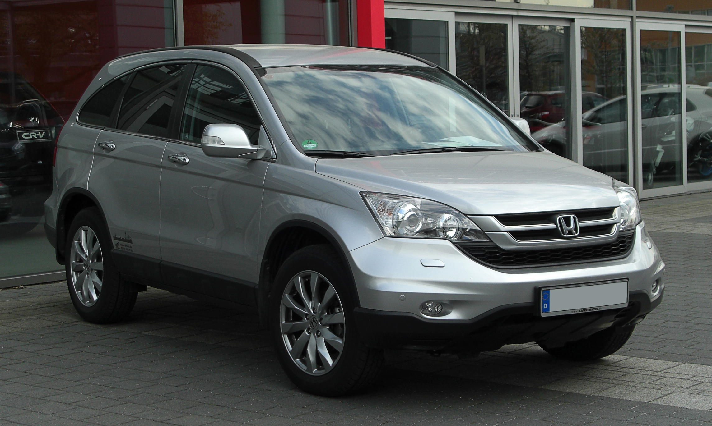 Honda CR-V 2.0 i-VTEC Elegance Lifestyle (III, Facelift)